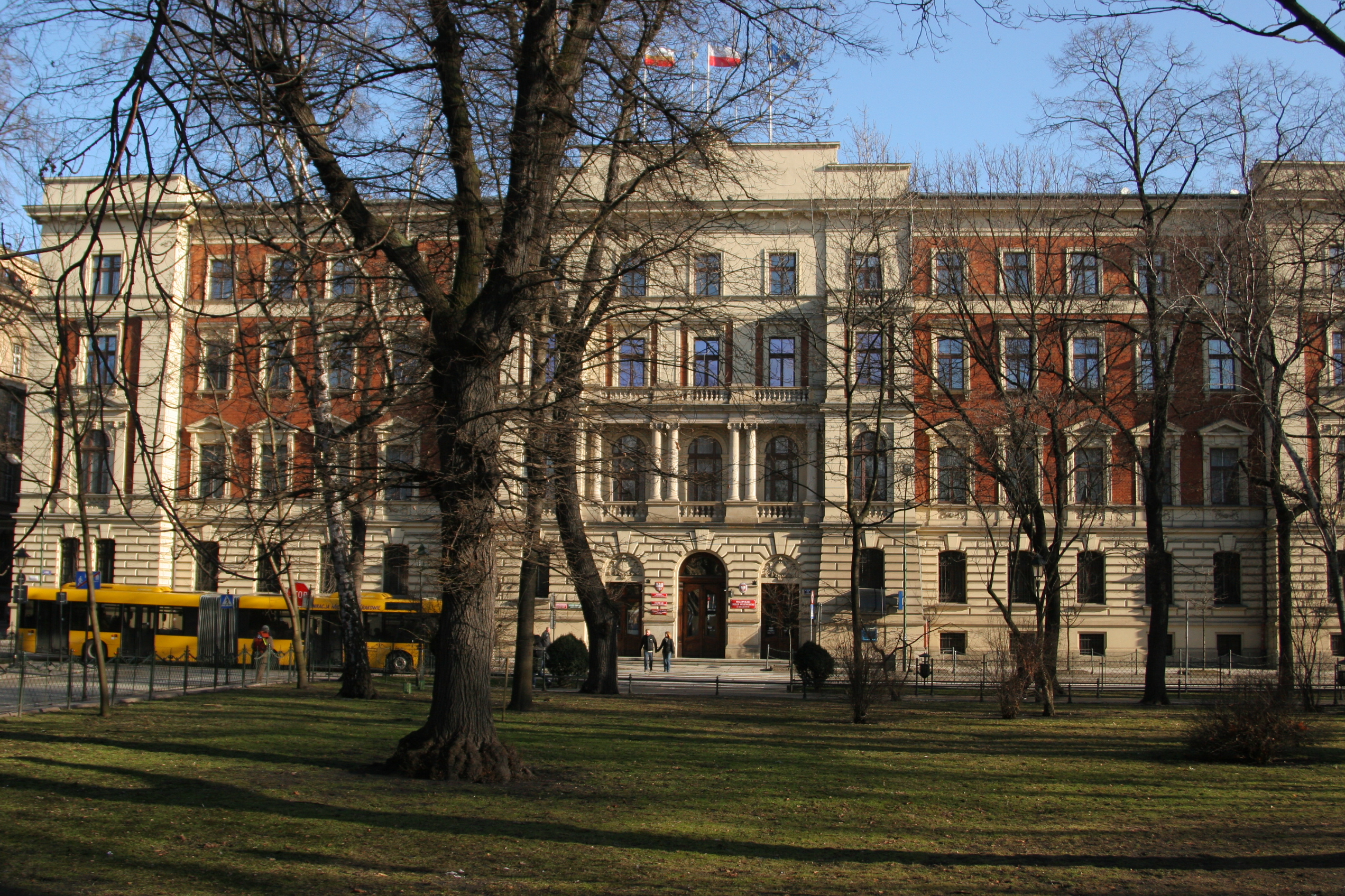 Lesser Poland Voivodeship Office on Basztowa Street in central Kraków - February 2012